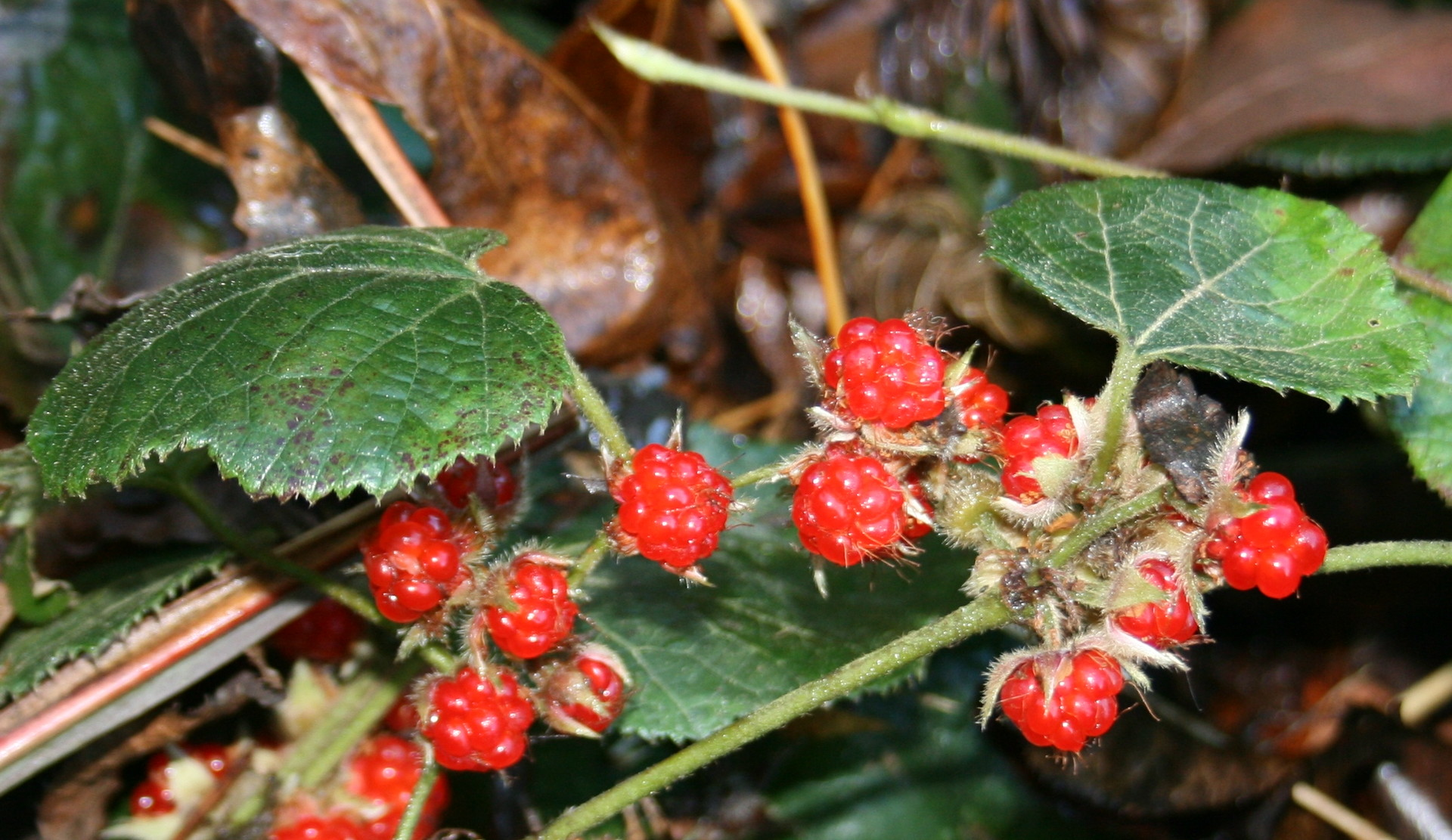 Rubus buergeri in Mount Hongu, Inuyama, Aichi prefecture, Japan.